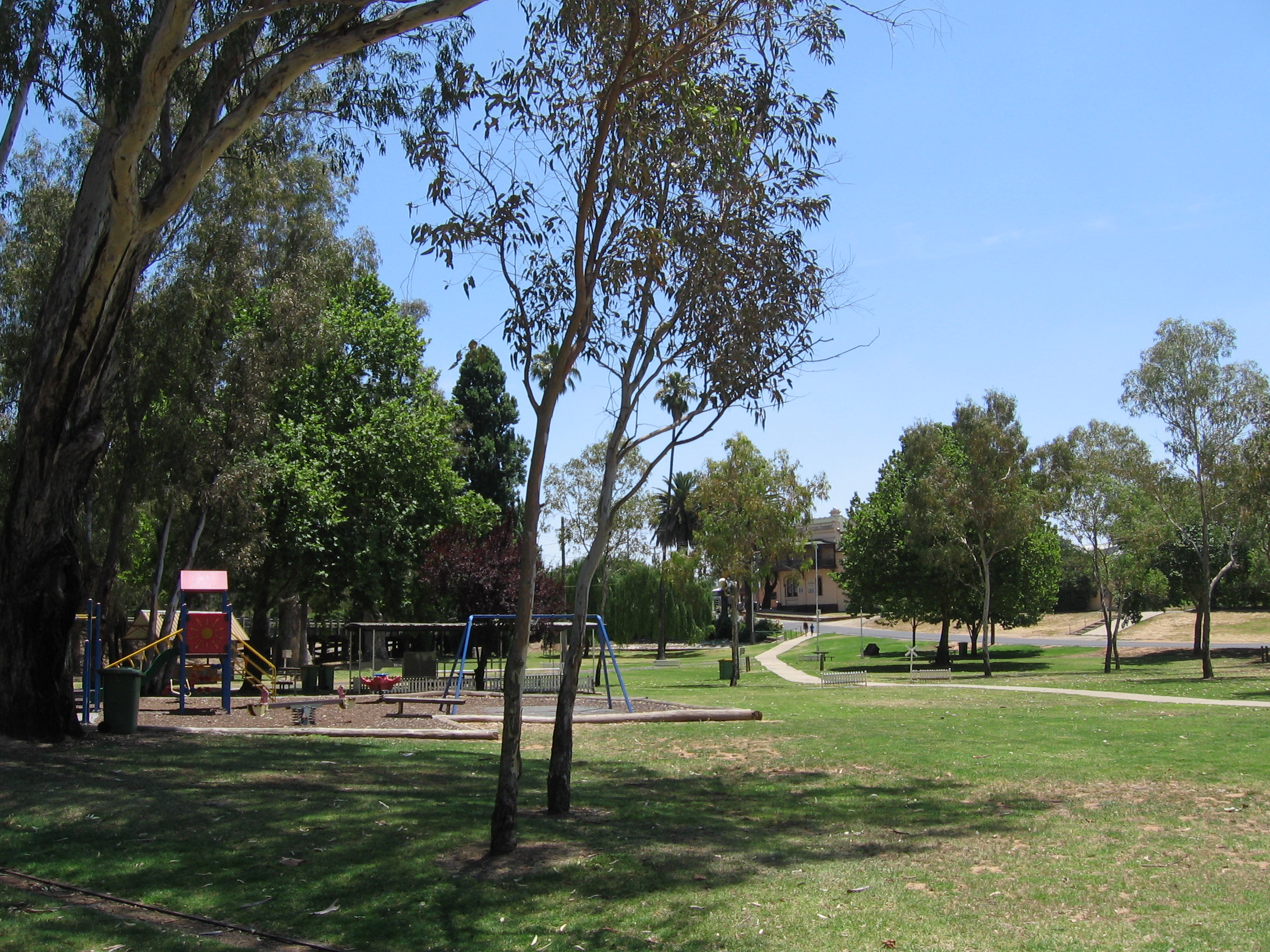 Park at Corowa, New South Wales